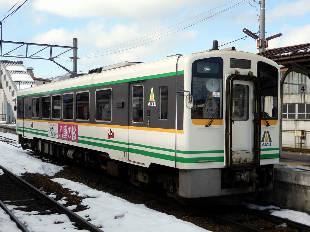 Aizu Railway AT-550 Diesel car (AT-551) at Aizu-Tajima station.